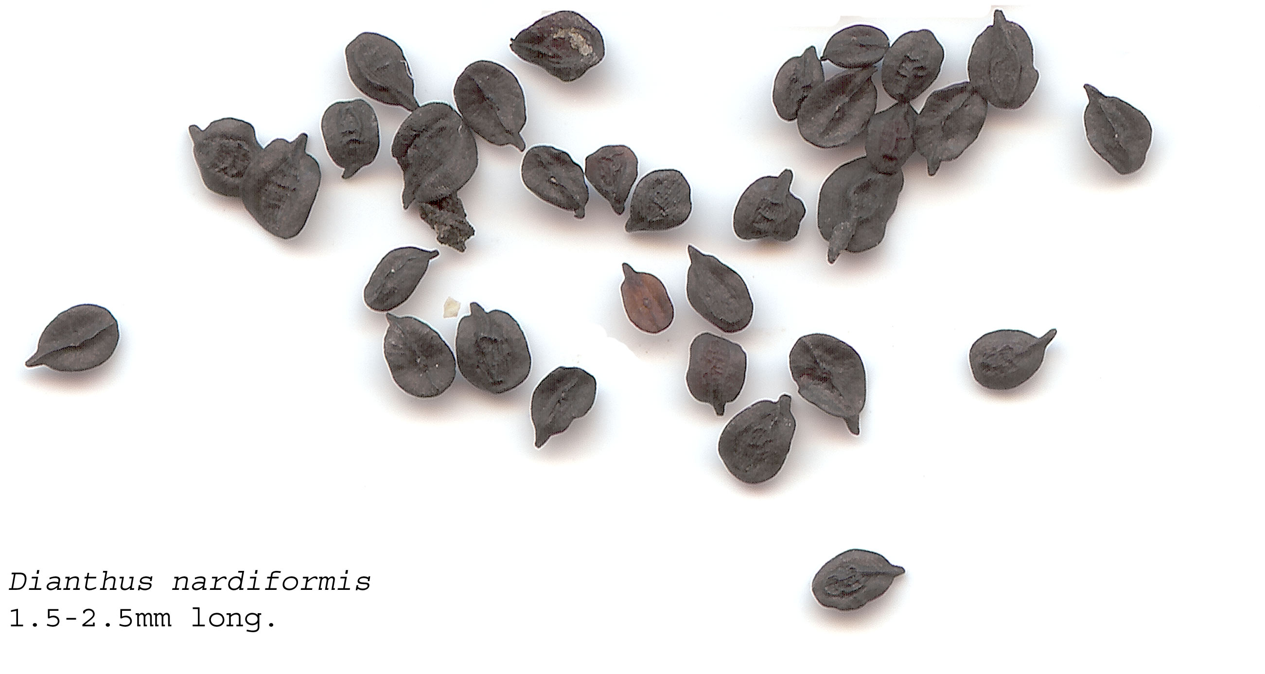 Self made scan of the seeds of Dianthus nardiformis made 01/06/2008.